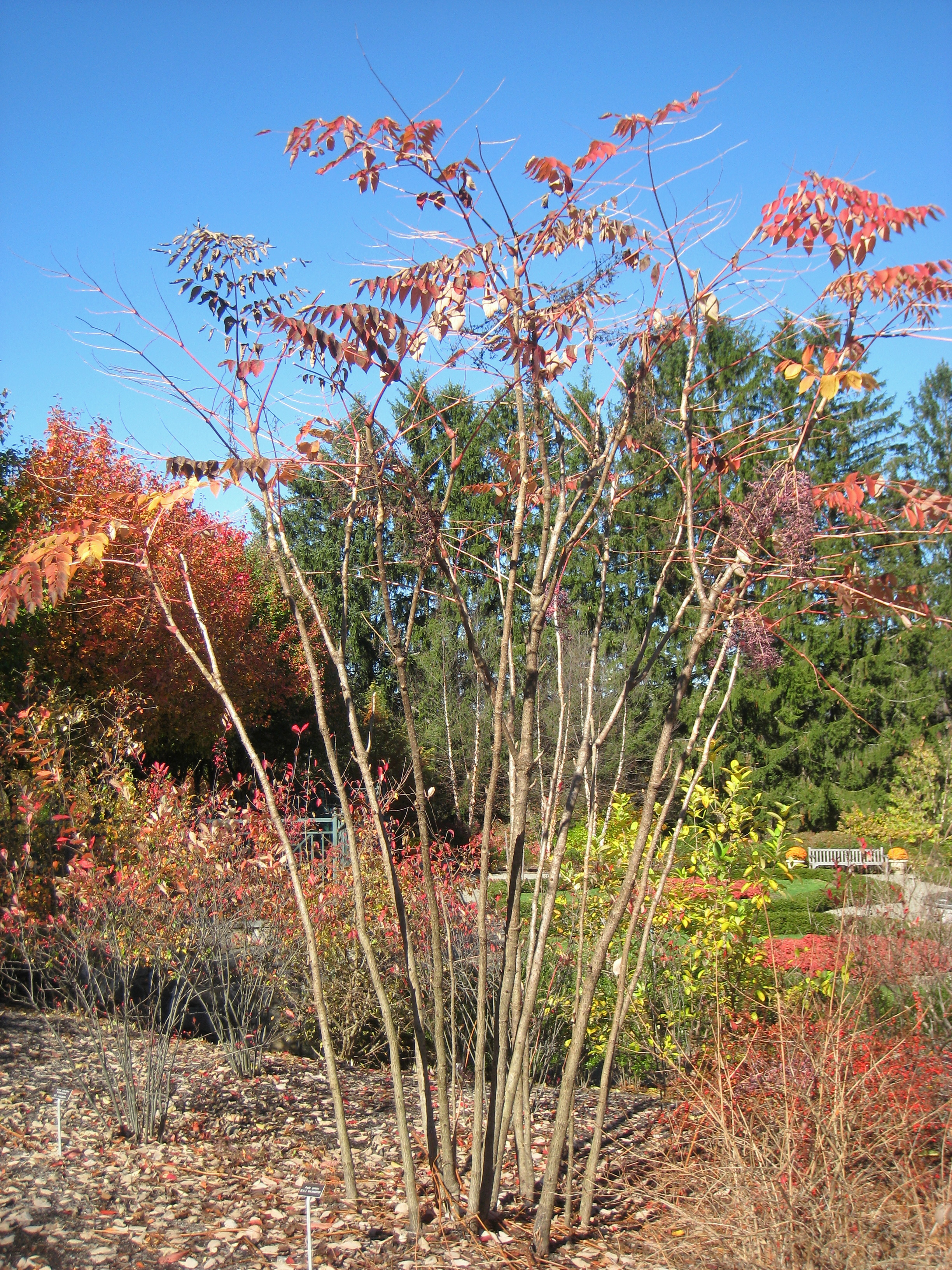 Aralia spinosa specimen in Lasdon Park and Arboretum, Somers, New York, USA.